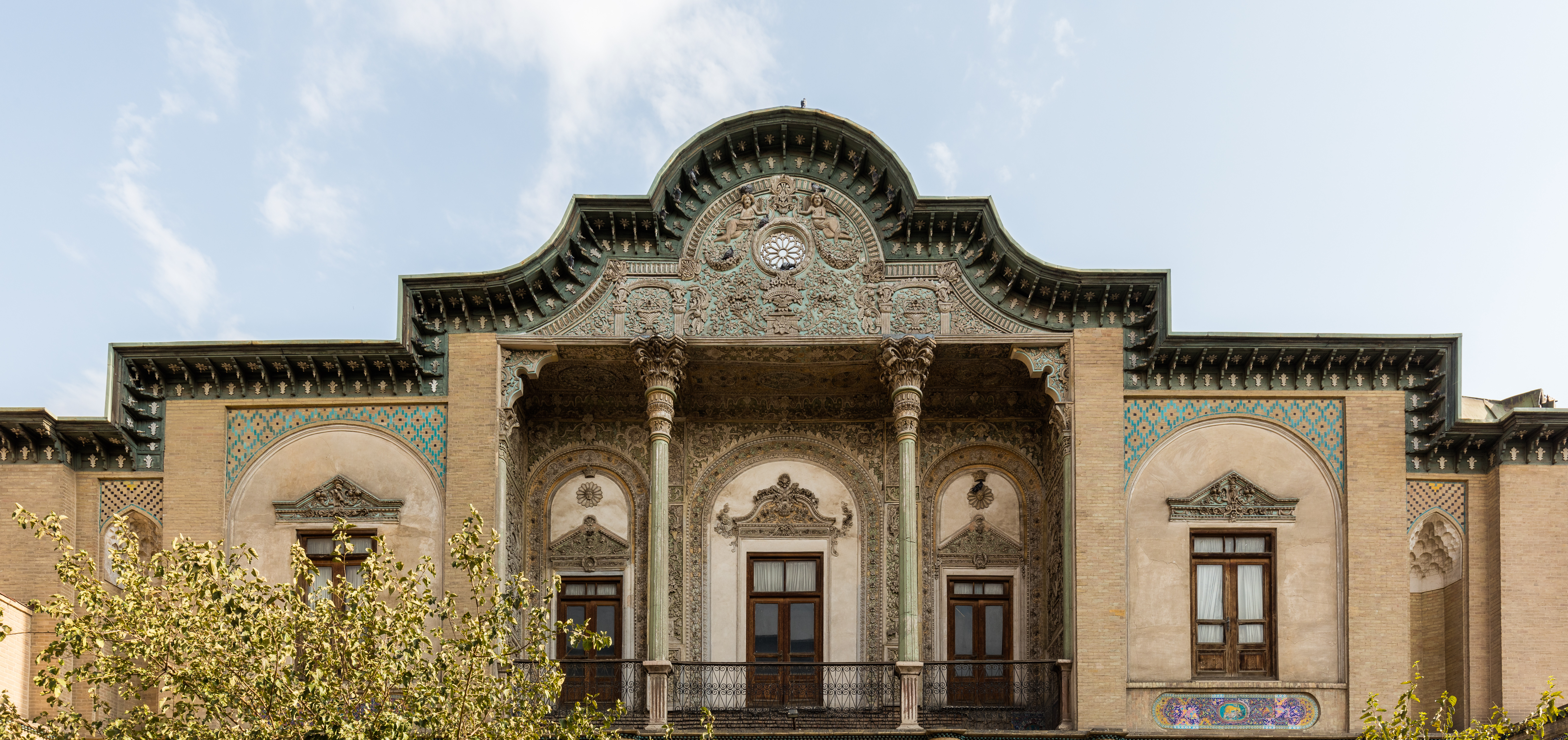 Masoudieh Mansion, Tehran, Iran